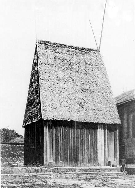 Besakana, one of the residences of King Andrianampoinimerina within the Rova of Antananarivo, Madagascar, built in the traditional style reserved for Merina aristocrats (andriana)